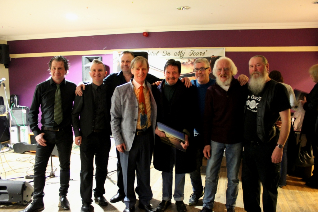 Record launch at Commercials Rowing Club, Dublin.6th. March 2015